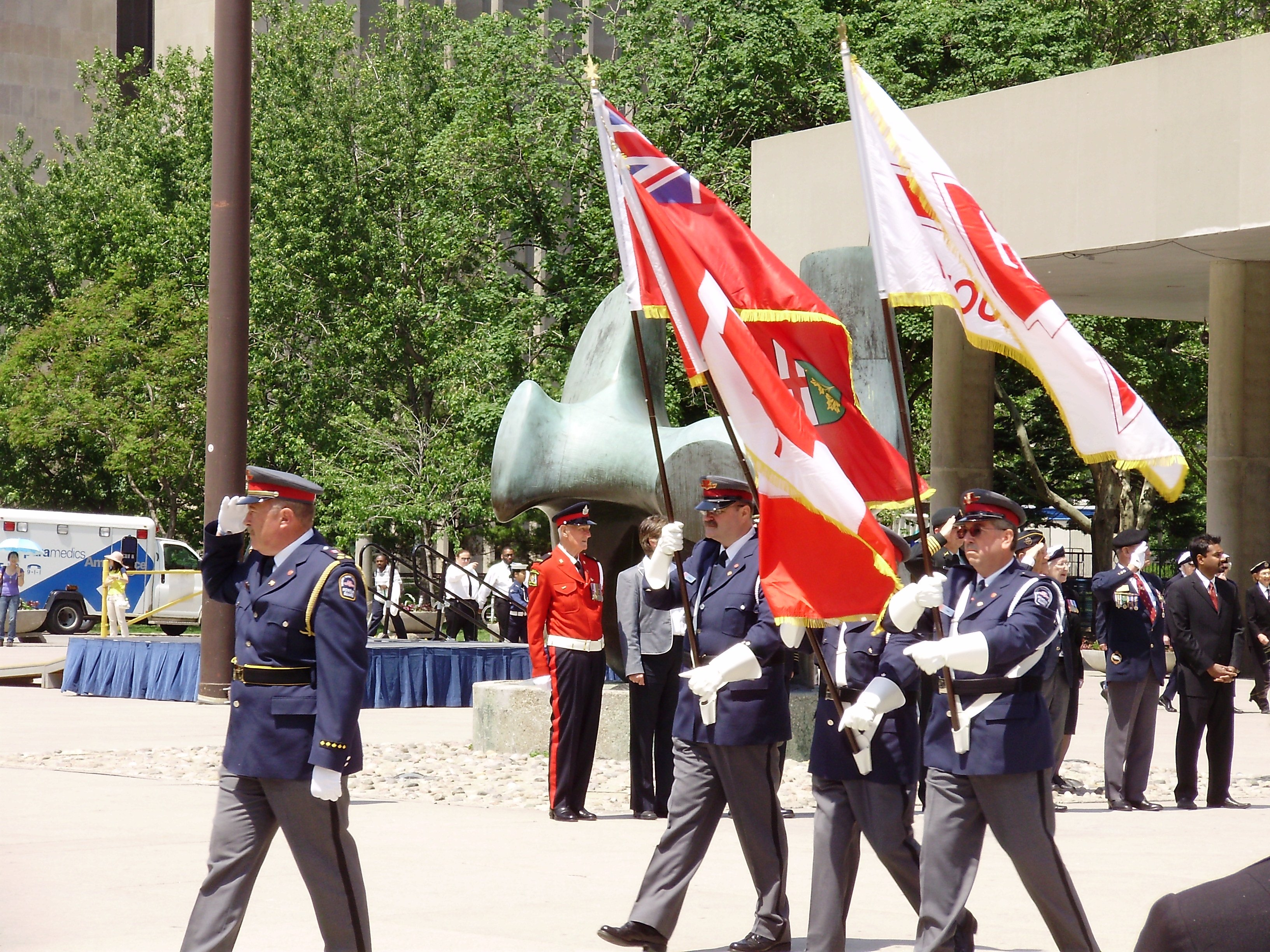 Members of the Toronto Transit Commission Honour Guard parade the colours through Nathan Phillips Square on the occasion of the city's D-Day anniversary ceremony in Toronto, Ontario, Canada.